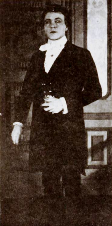 Still from the American film The Corsican Brothers (1920) with Dustin Farnum (who plays a dual role), on page 100 of the December 25, 1920 Exhibitors Herald.